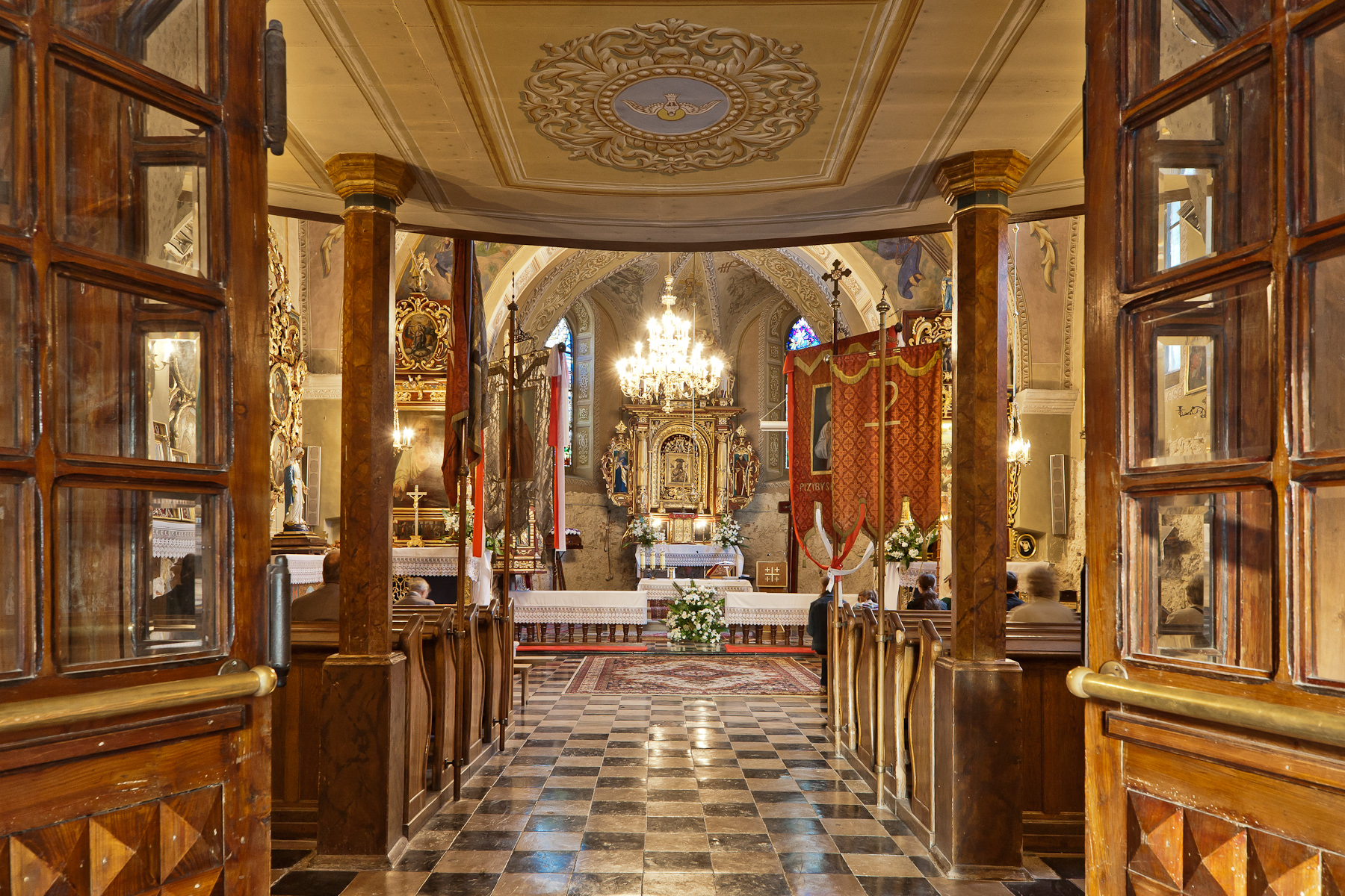 Interior of a Roman Catholic church in Korzkiew in the Małopolska (Lesser Poland) province.